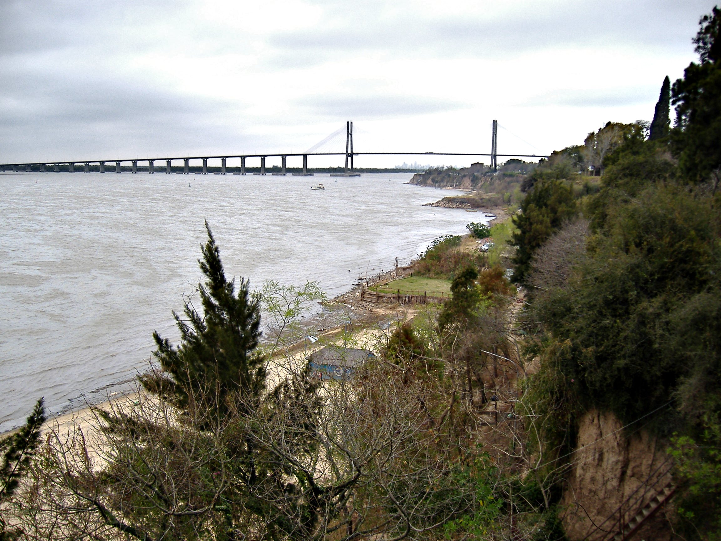 A beach on the Paraná River at the Natural Reserve of Granadero Baigorria (north of Rosario), Santa Fe, Argentina. The Rosario-Victoria Bridge can be seen in the background.